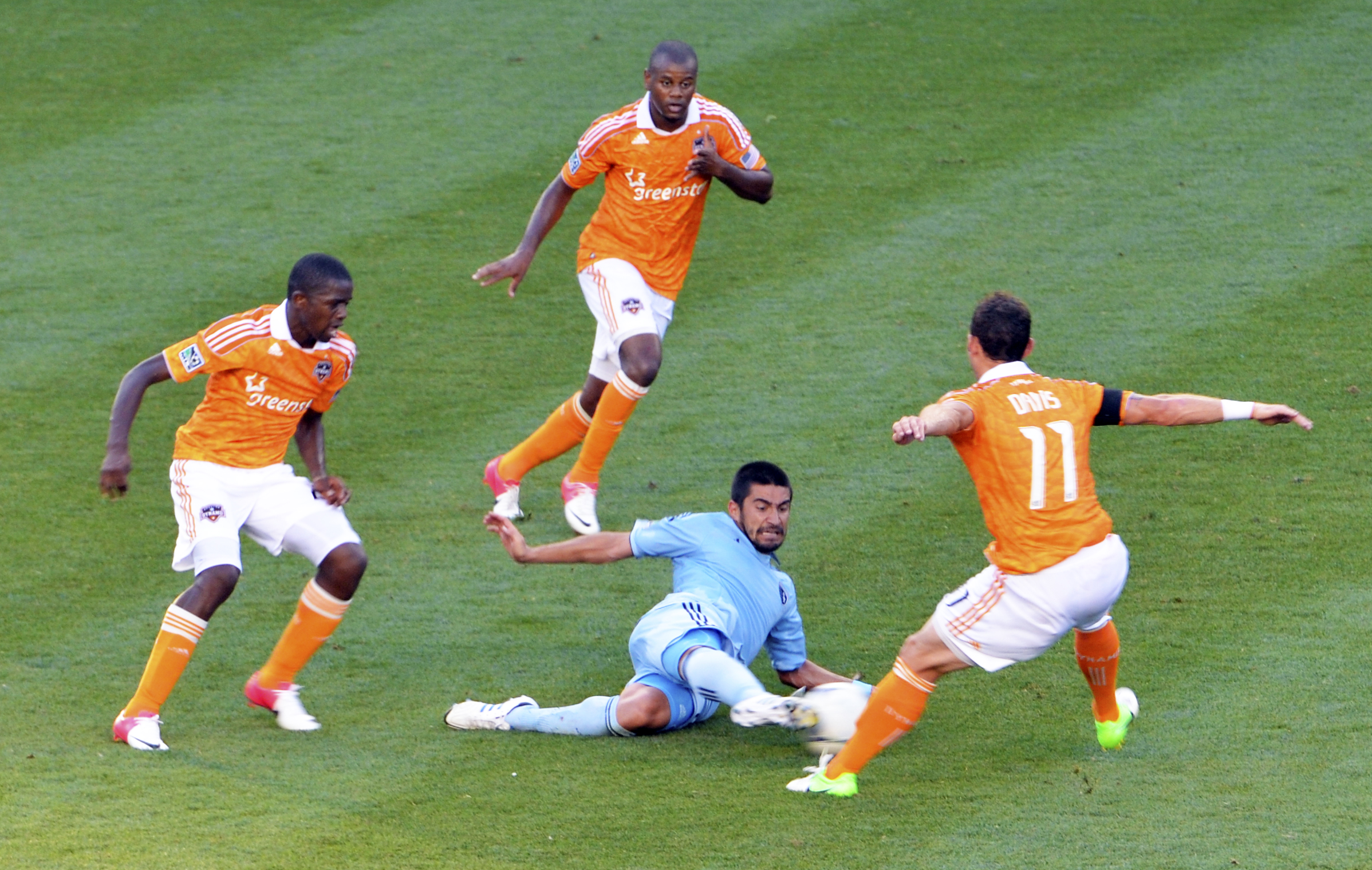 Paulo Nagamura of the Sporting KC defends against an onslaught of Houston Dynamo players at Livestrong Sporting Park, Kansas City, Kansas, on July 7th, 2012.